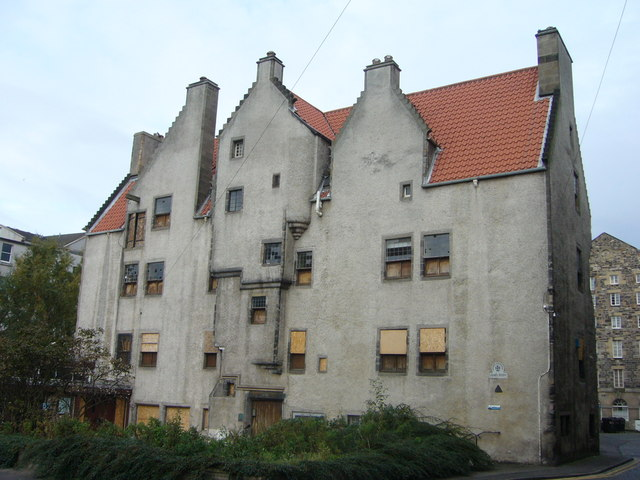 A late 16thC or early 17thC merchant's house, used latterly as a Day Centre for the Elderly. Tradition has it that Mary, Queen of Scots, on landing in Leith in 1561, was received into the house of Andrew Lamb where she was entertained "for ane houre" while Holyrood Palace was being prepared for her reception. As this building dates from later than her arrival, it has been conjectured that Lamb had an earlier residence on or near the site. In 2011-12 it was renovated as a house and office by an architects' partnership.